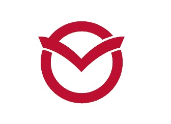 Flag of Hino Tottori